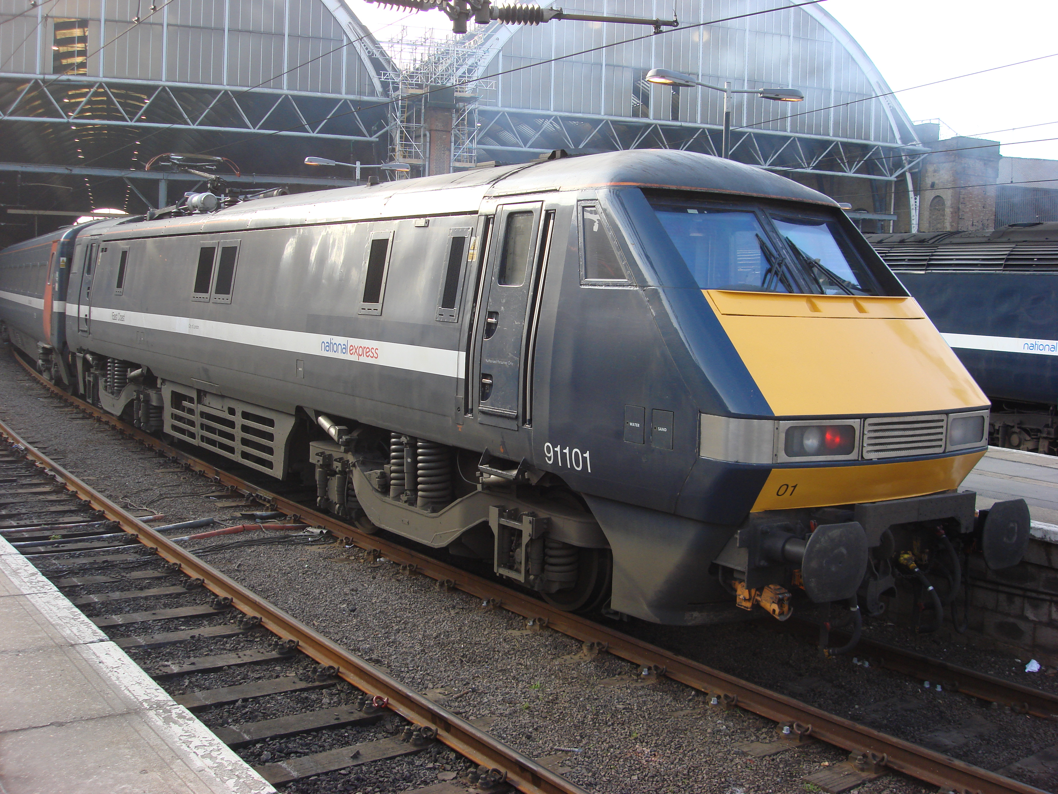 91101 at Kings Cross